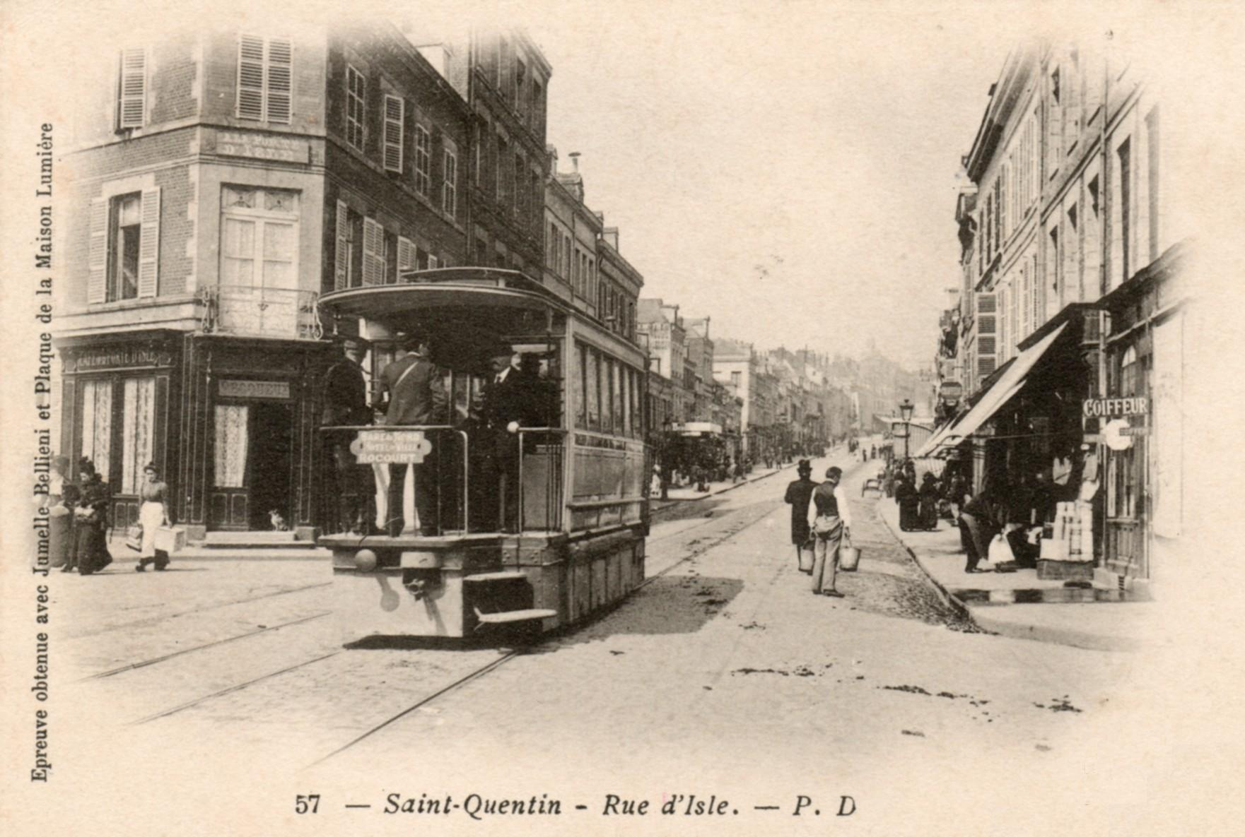 Mékarski compress air tram in Saint-Quentin (Aisne, France), vintage postcard from around 1900